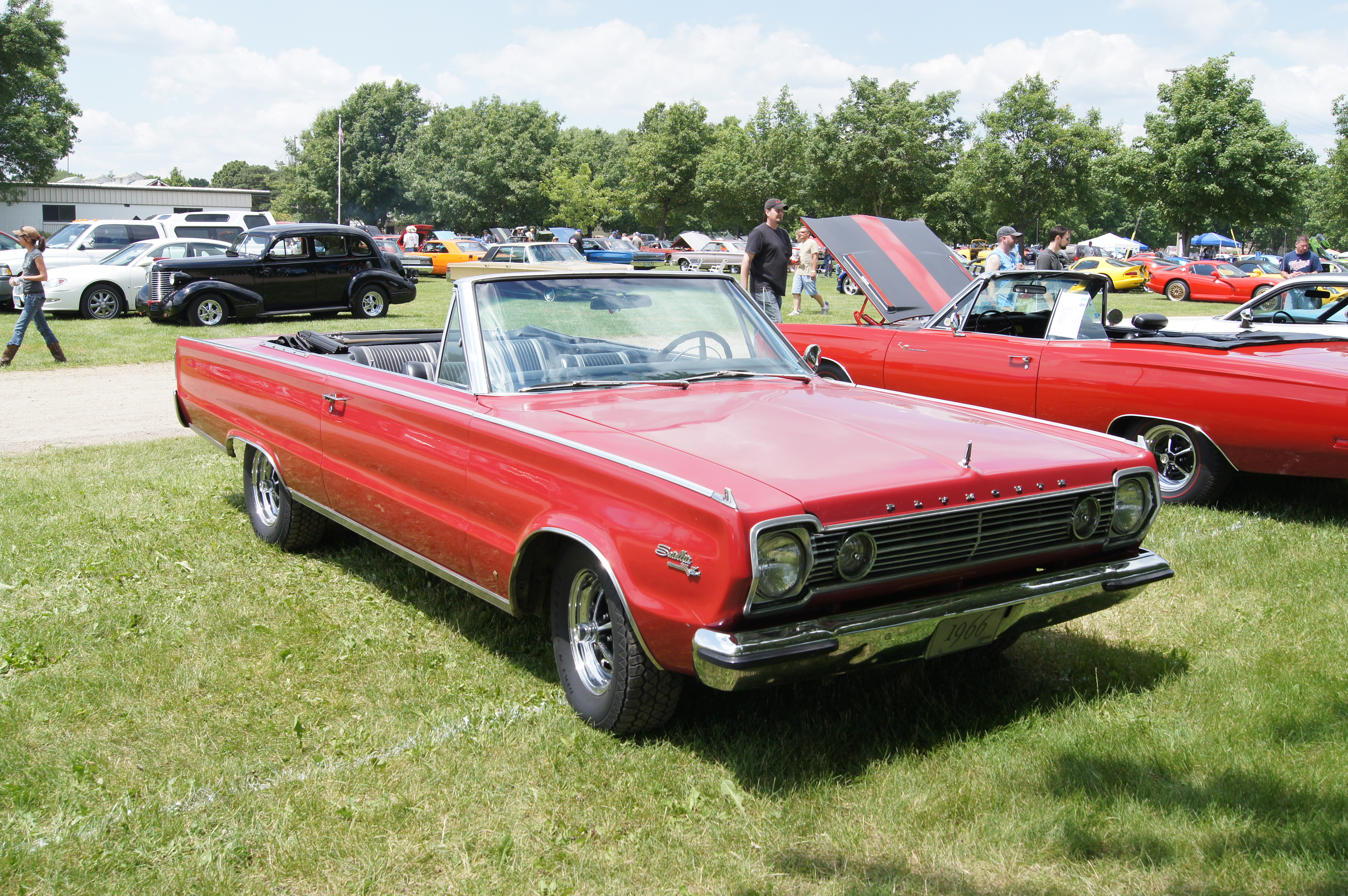 28th Annual Midwest Mopars in the Park June 2, 2012